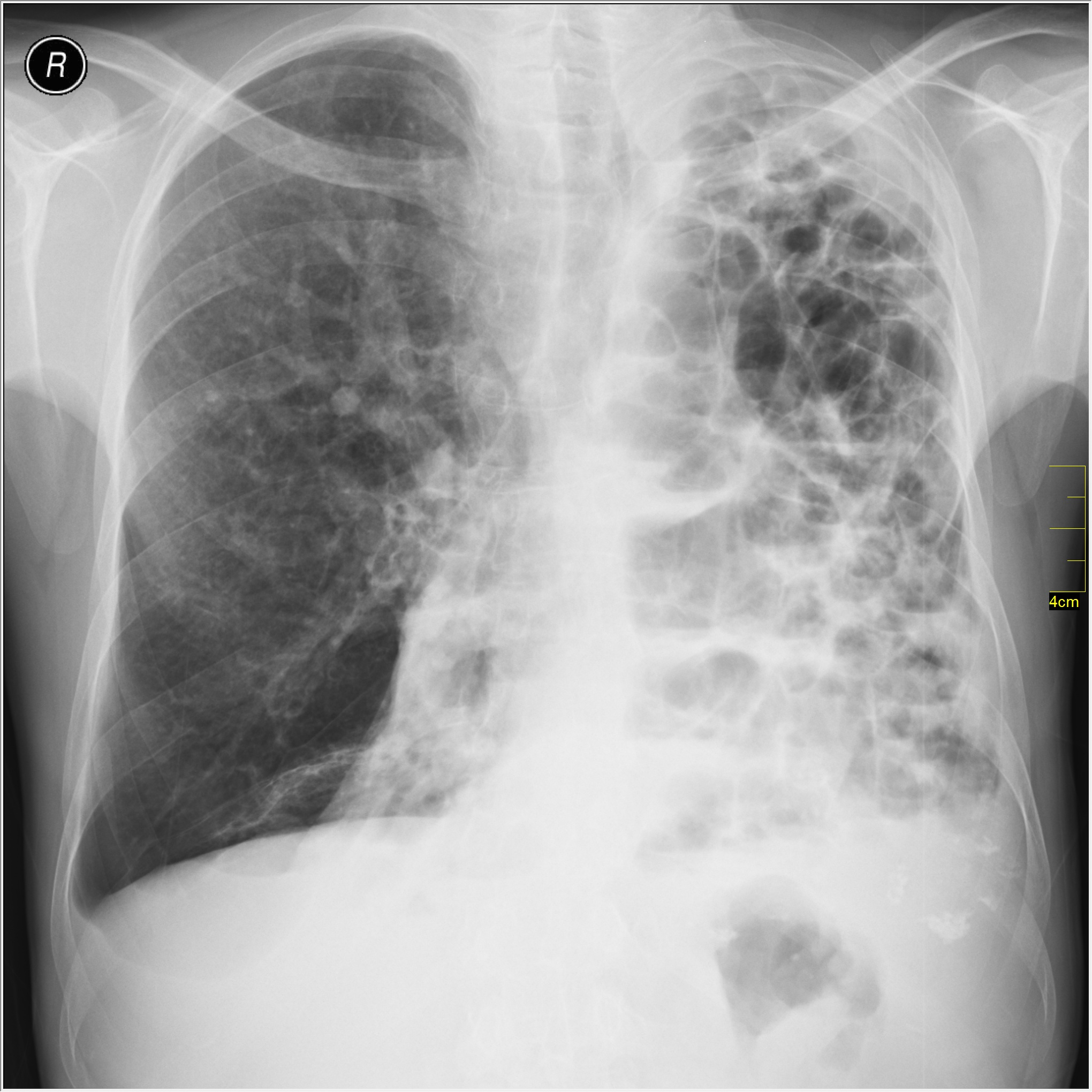 Bullous emphysema. Roentgenogram or Medical X-ray image. May not be to scale.